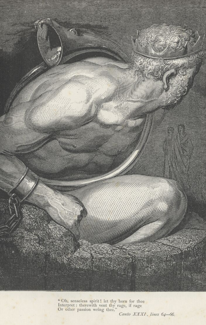 Illustration by Gustave Doré for The Divine Comedy by Dante, Illustrated, Hell, Volume 01, 1892